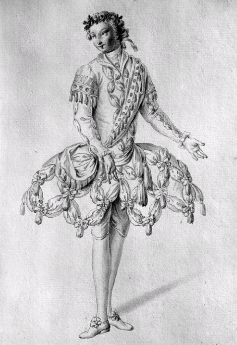 The soprano-castrato singer Giuseppe Belli shown in costume for the opera L'Olimpiade composed by Johann Adolph Hasse, scenery and costumes by Servandoni. (Dresden, 1756)